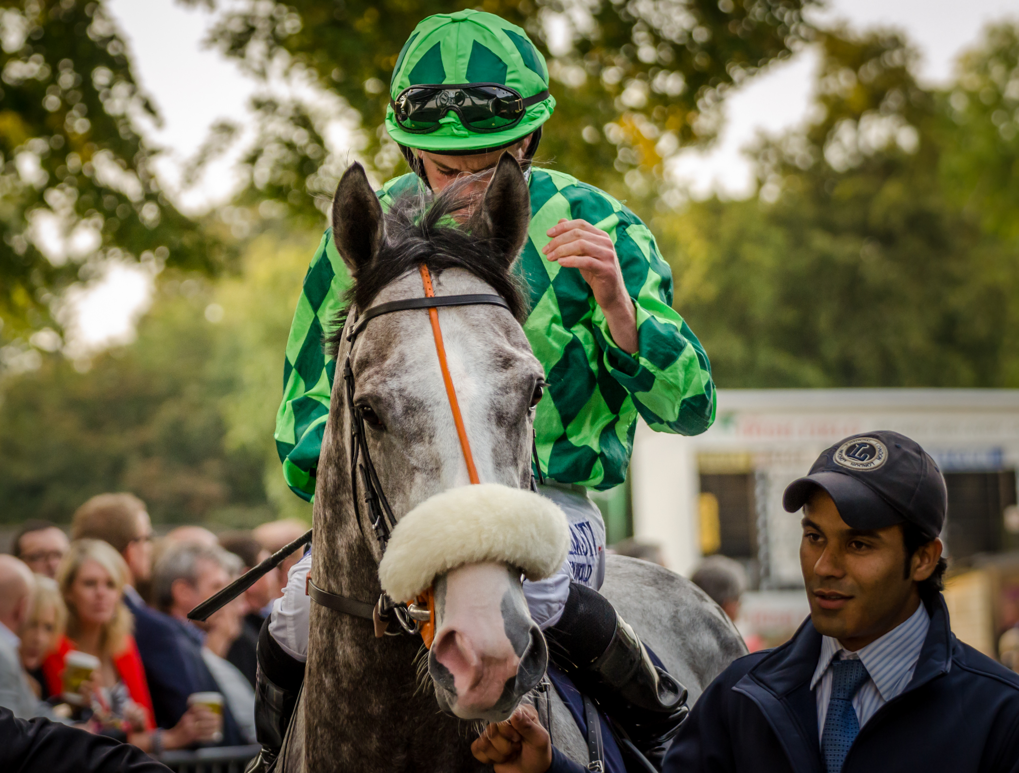 Irish Champions Stakes, Leopardstown racecourse